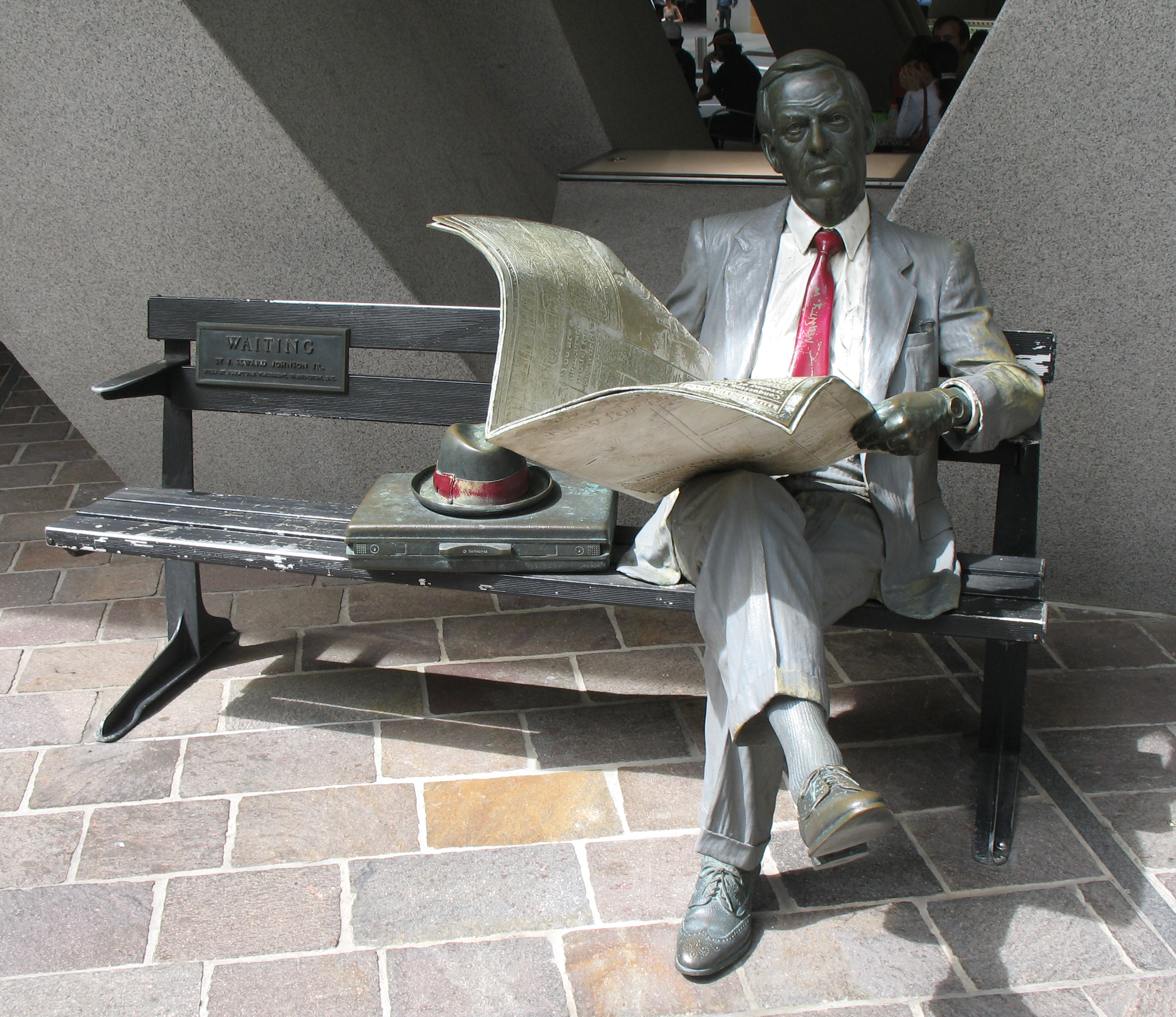 "Waiting", a sculpture by John Seward Johnson II that sits in a plaza in central Sydney, Australia, photographed by DO'Neil.